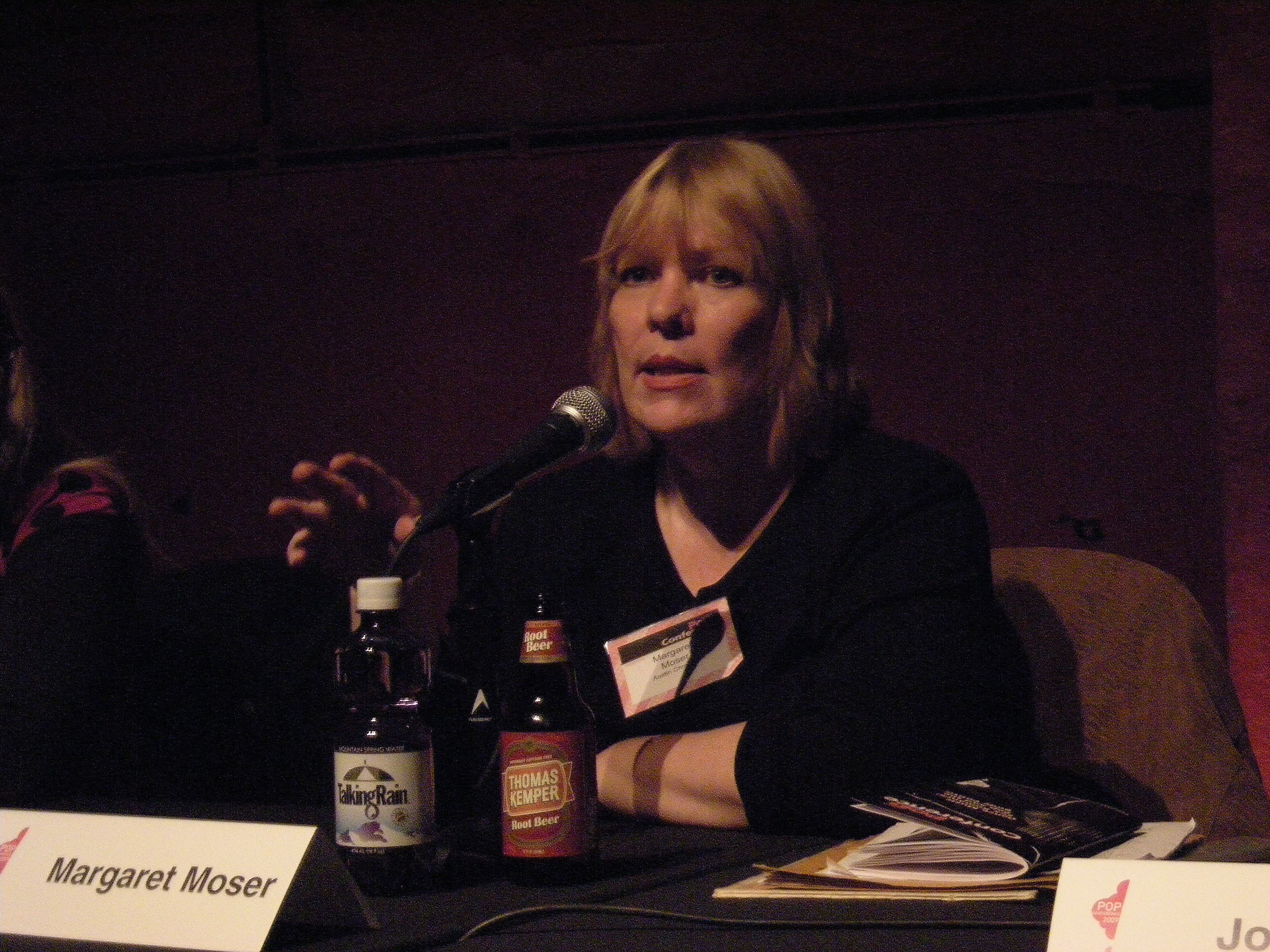 Margaret Moser (former groupie, now music writer, author of No Regrets: How I Went From Backstage to Printed Page) on the panel "Reconsidering the Groupie" at the 2009 Pop Conference, Experience Music Project, Seattle, Washington.